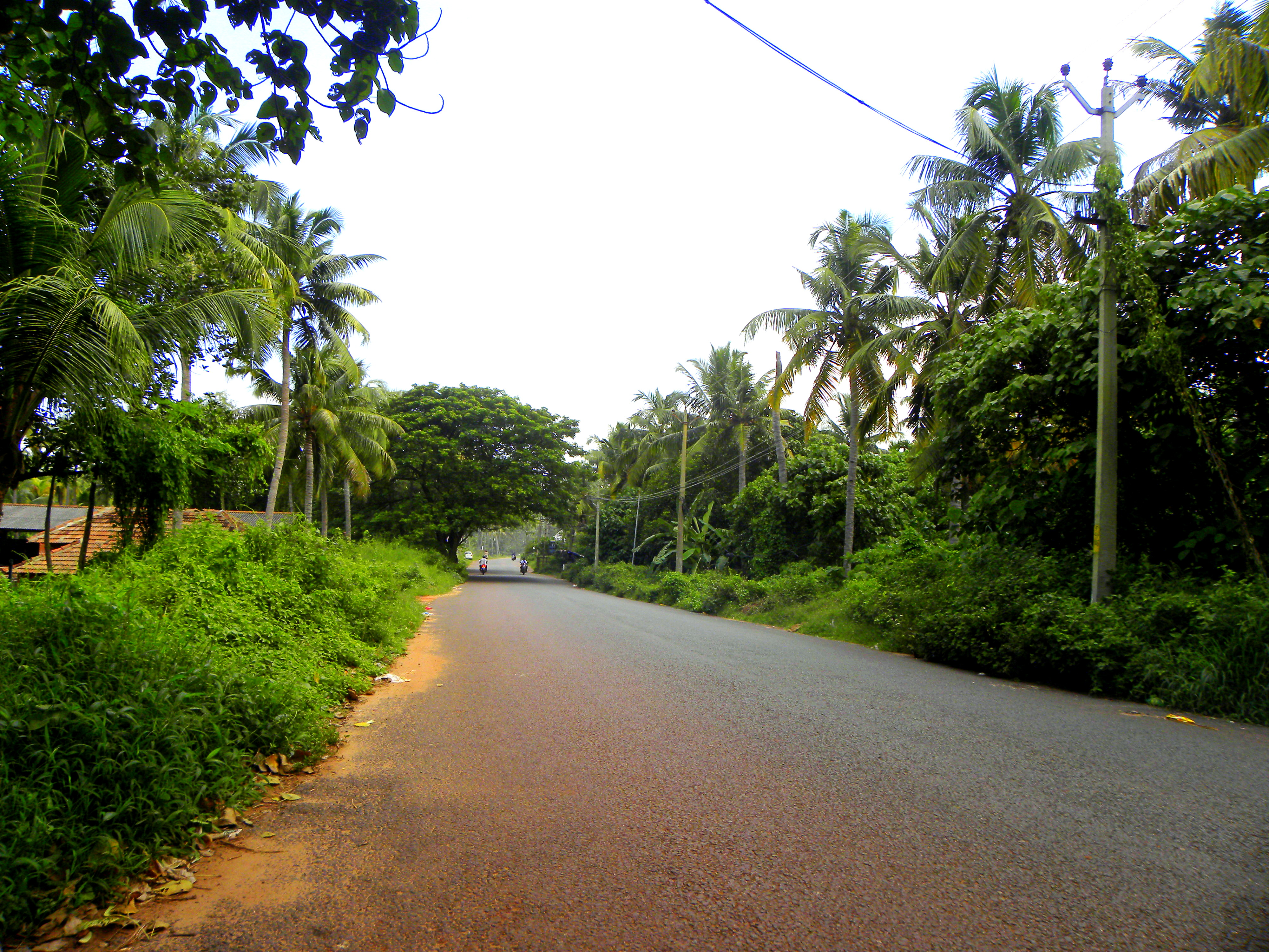 Meenad is a place in the Paravur-Chathannoor road, were there are so many bricks manufacturers have located